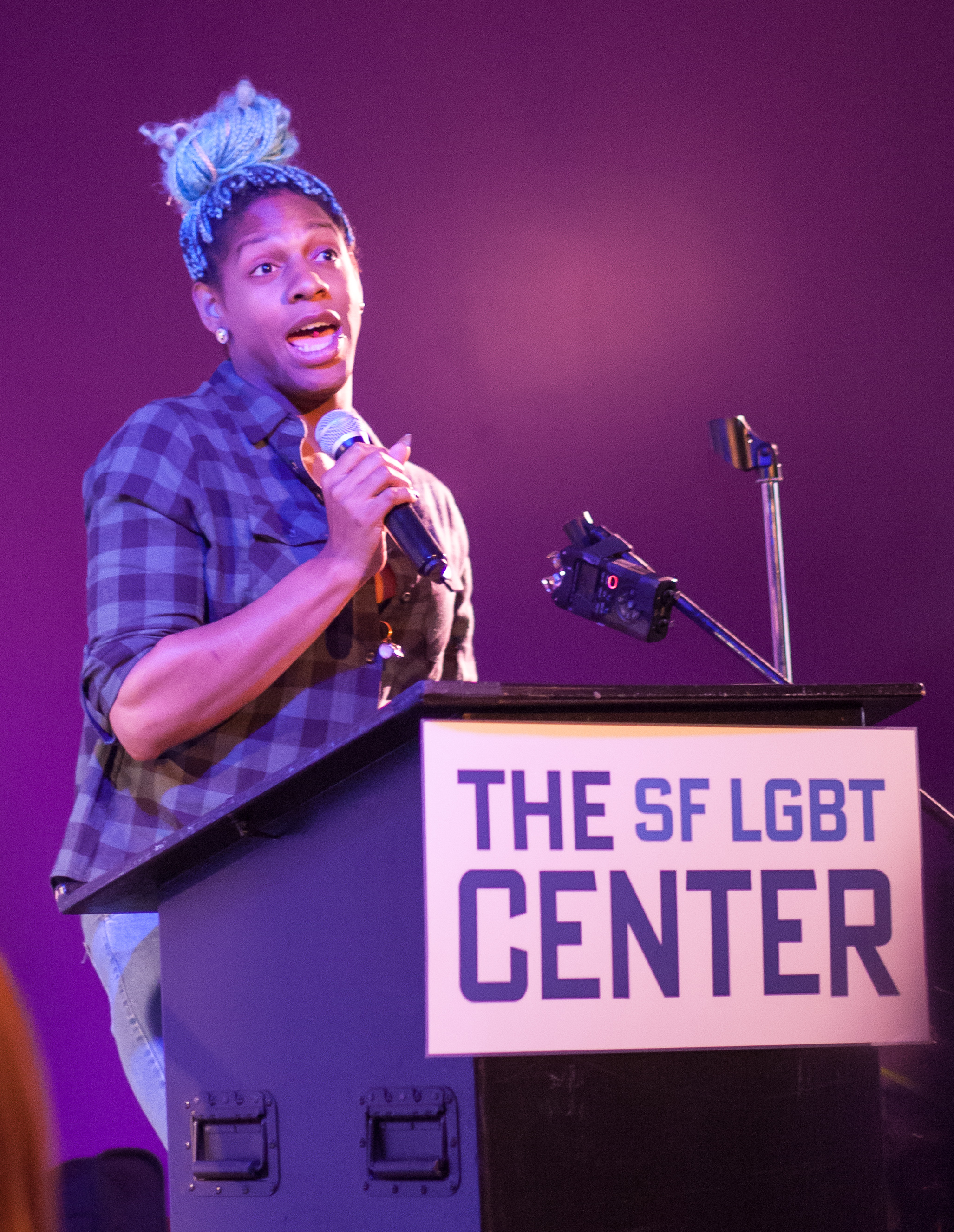 CeCe McDonald speaks on the Transgender Day of Remembrance at the San Francisco LGBT Community Center.